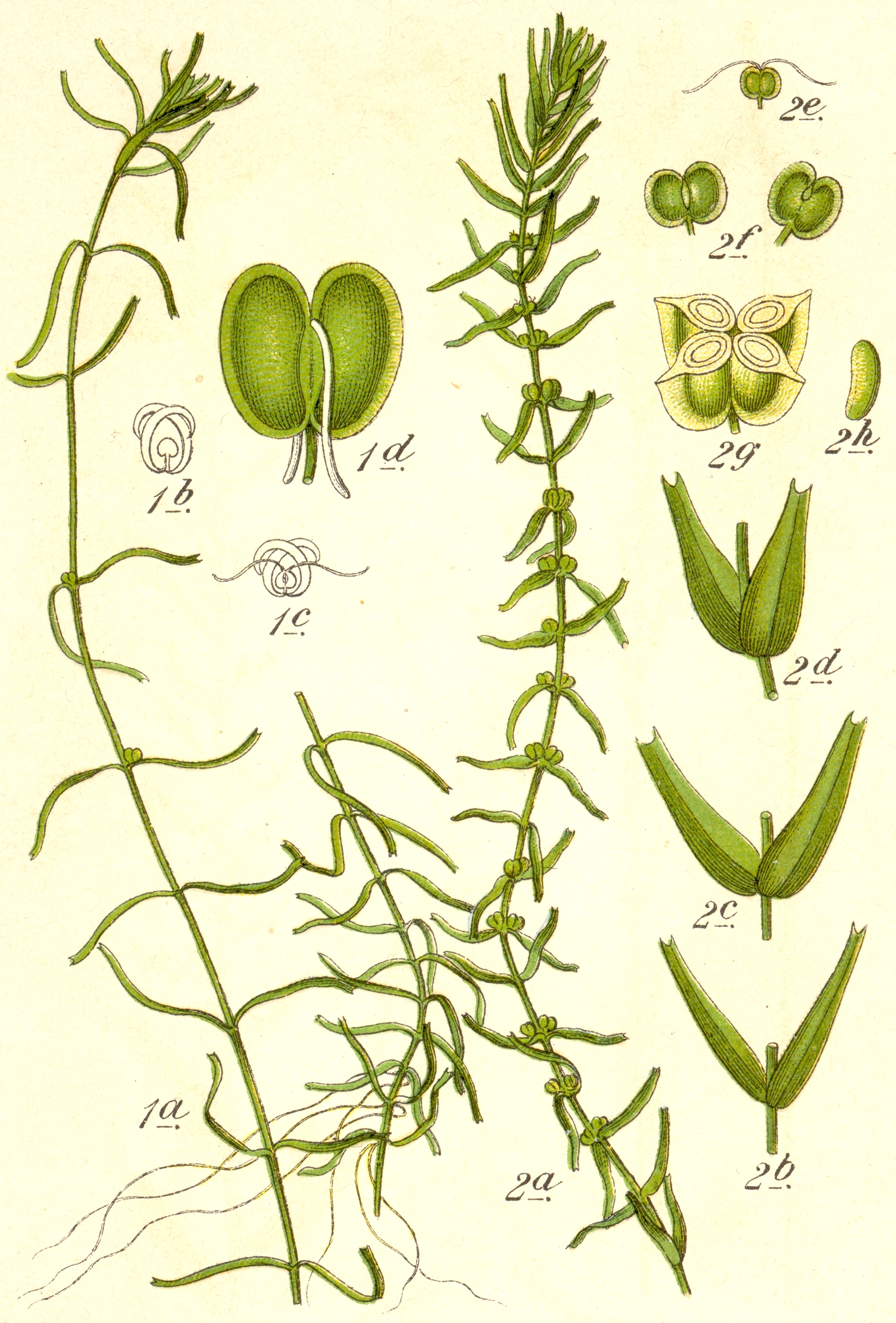 Original Caption 1. Haken-Wasserstern, Callitriche hamulata 2. Herbst-Wasserstern, Callitriche autumnalis